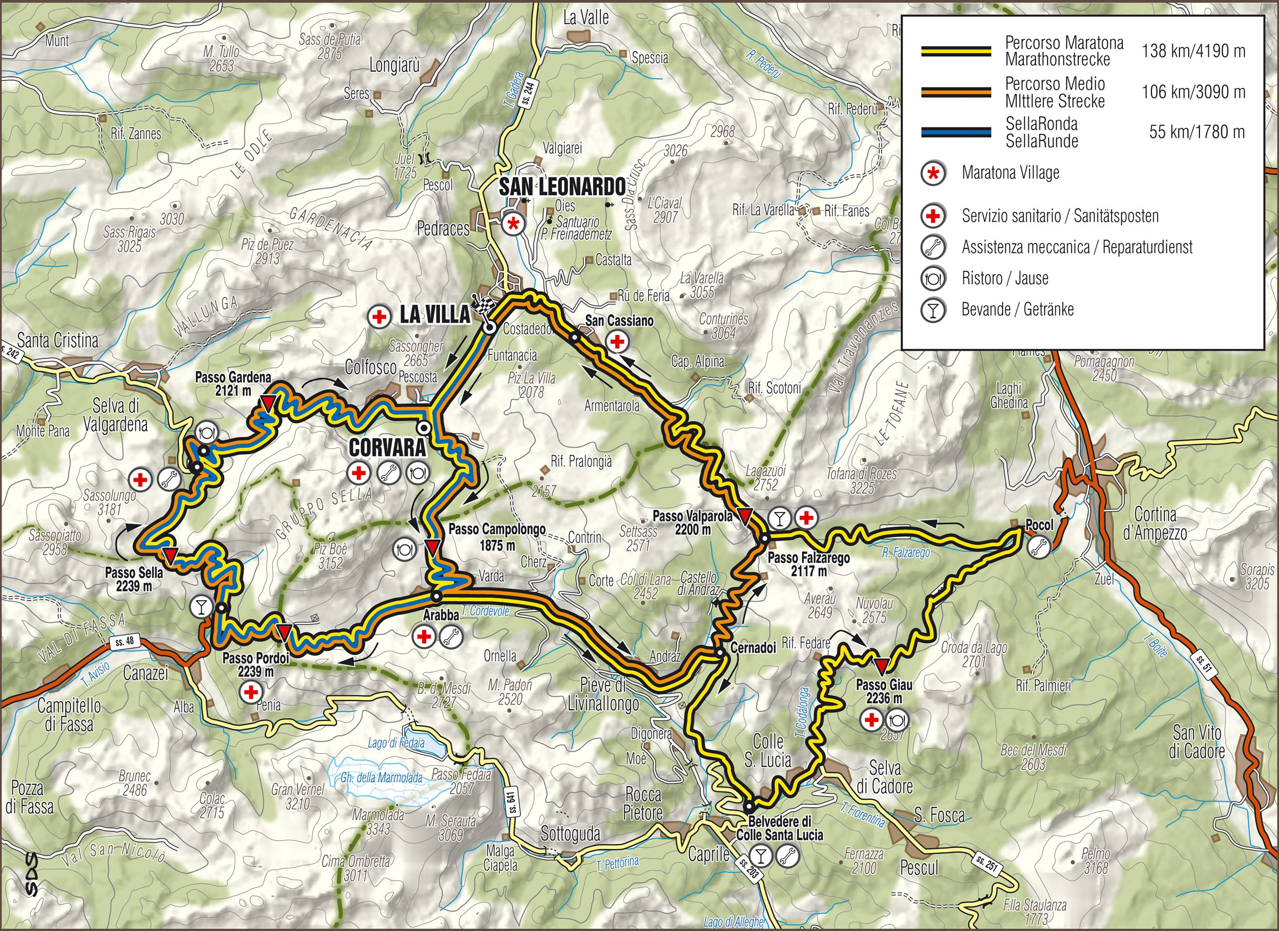 Maratona dles Dolomites The three possible courses